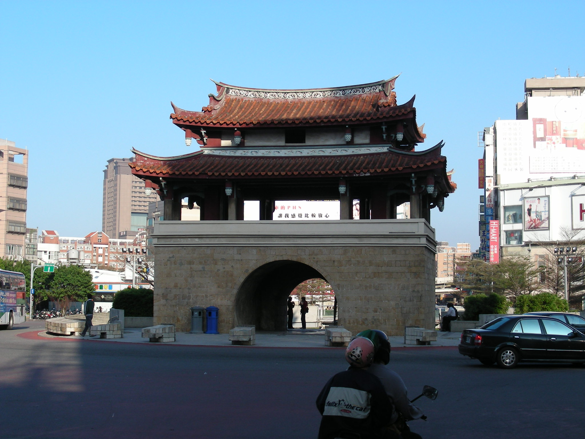 The "Ying Xi" Gate (The Easten Gate) in Hsinchu City, Taiwan.